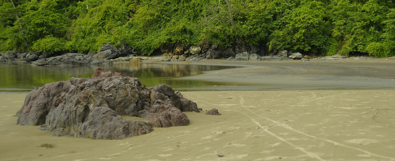 Rajegwesi coast, Pesanggaran, Banyuwangi, Meru Betiri National Park